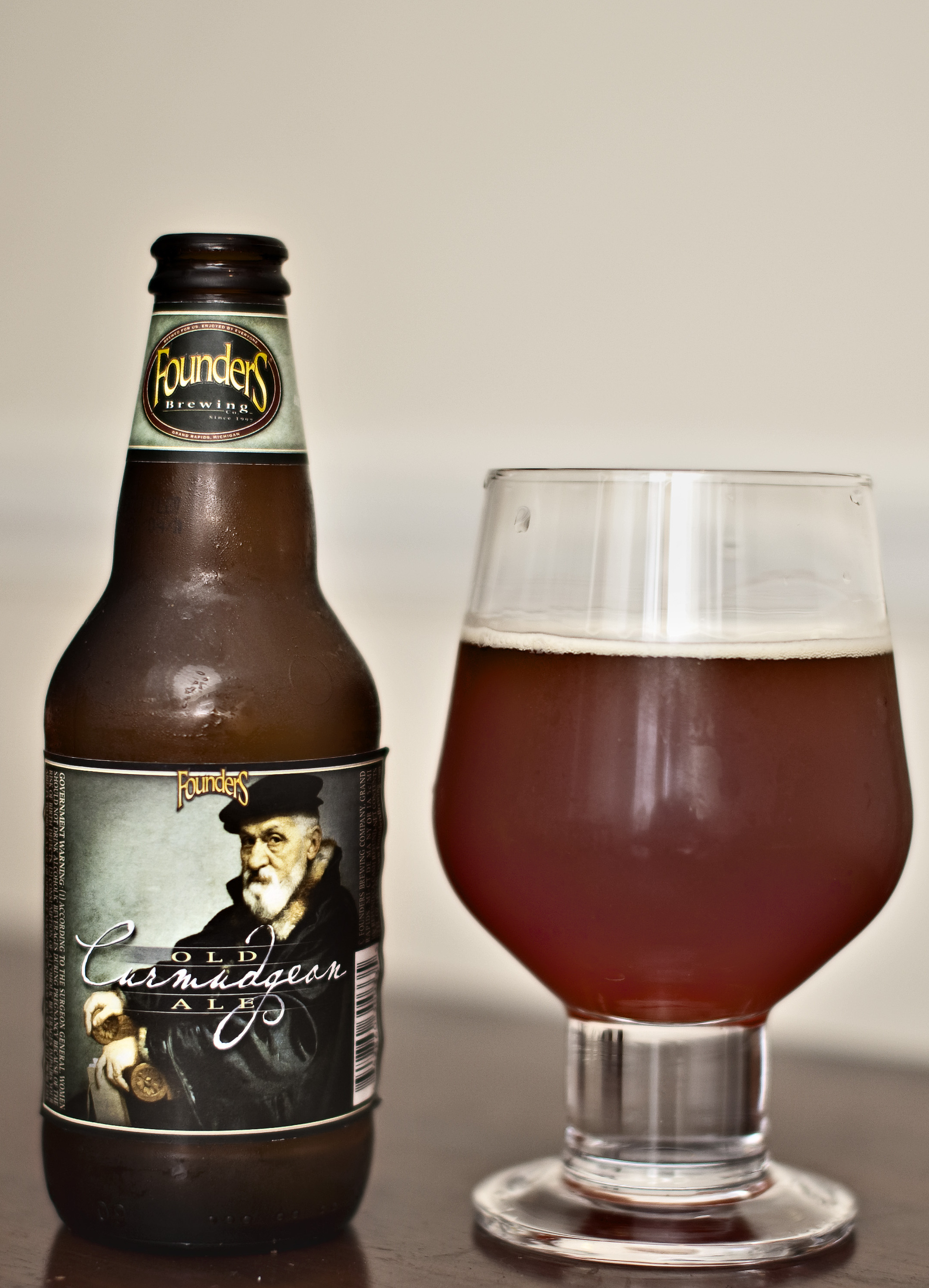 Old ale is a term commonly applied to dark, malty beers in England, generally above 5% abv, often also called Winter Warmers and also to dark ales of any strength in Australia. Sometimes associated with stock ale or, archaically, keeping ale, in which the beer is held at the brewery. American brewed old ales will tend to be of a barley wine strength.